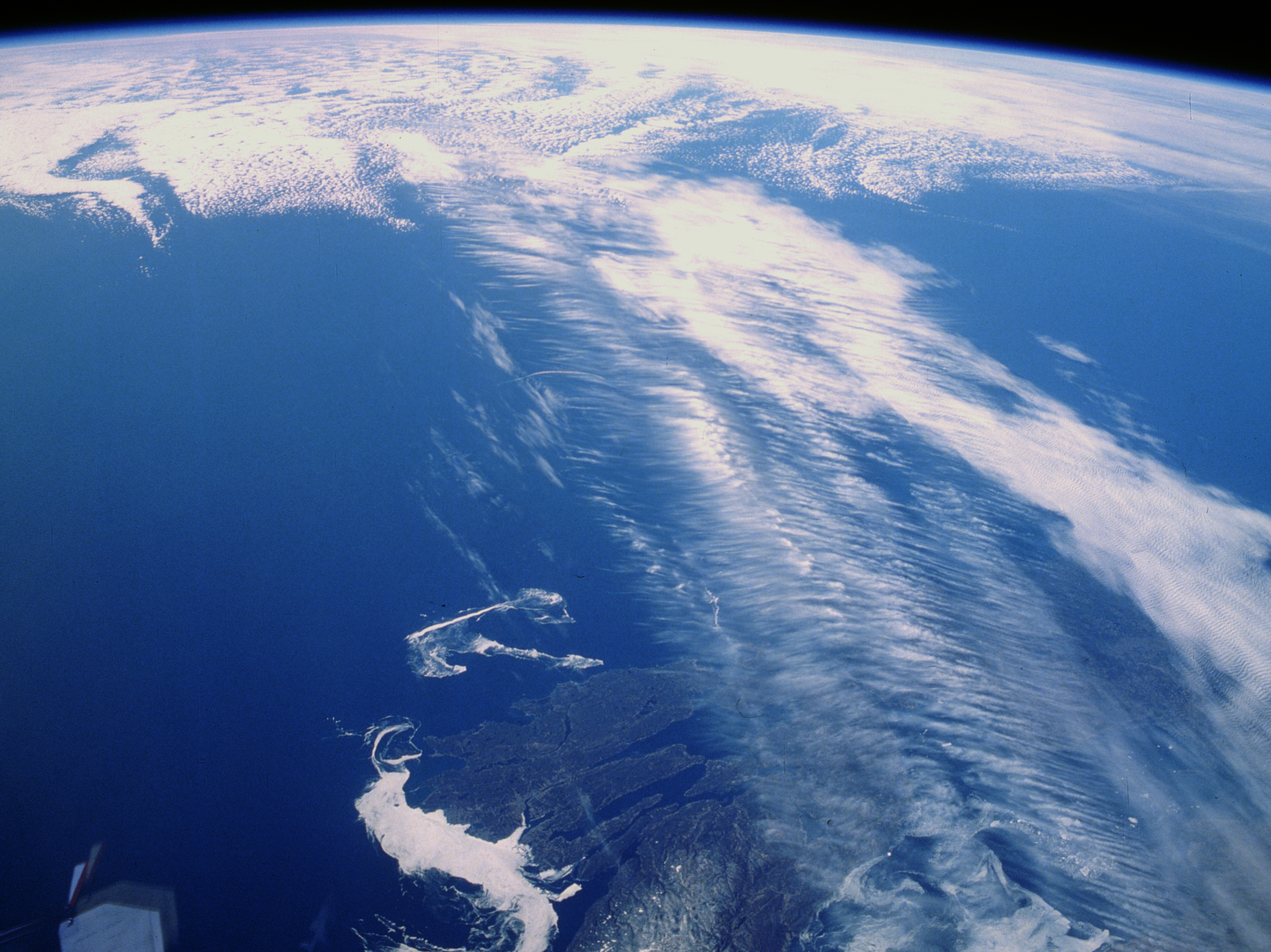 The Northern Hemisphere Jet Stream can be seen crossing Cape Breton Island in the Maritime Provinces of Eastern Canada. The Jet Stream is a narrow zone of high-speed winds typically found at altitudes of 4 to 8 miles (8-12 km) above the earth. They result from temperature contrasts between polar and tropical regions. The strongest Jet Stream winds are found in the winter when the contrast between polar and tropical regions is the greatest. Wind speeds can reach 90 to over 180 miles per hour (145 to over 290 km/h) from west to east. Jet Streams are found between latitudes 20° to near 55° north and south. During the winter months over the United States and southern Canada, the path taken by the Jet Stream can have a large influence on the weather conditions of this region.